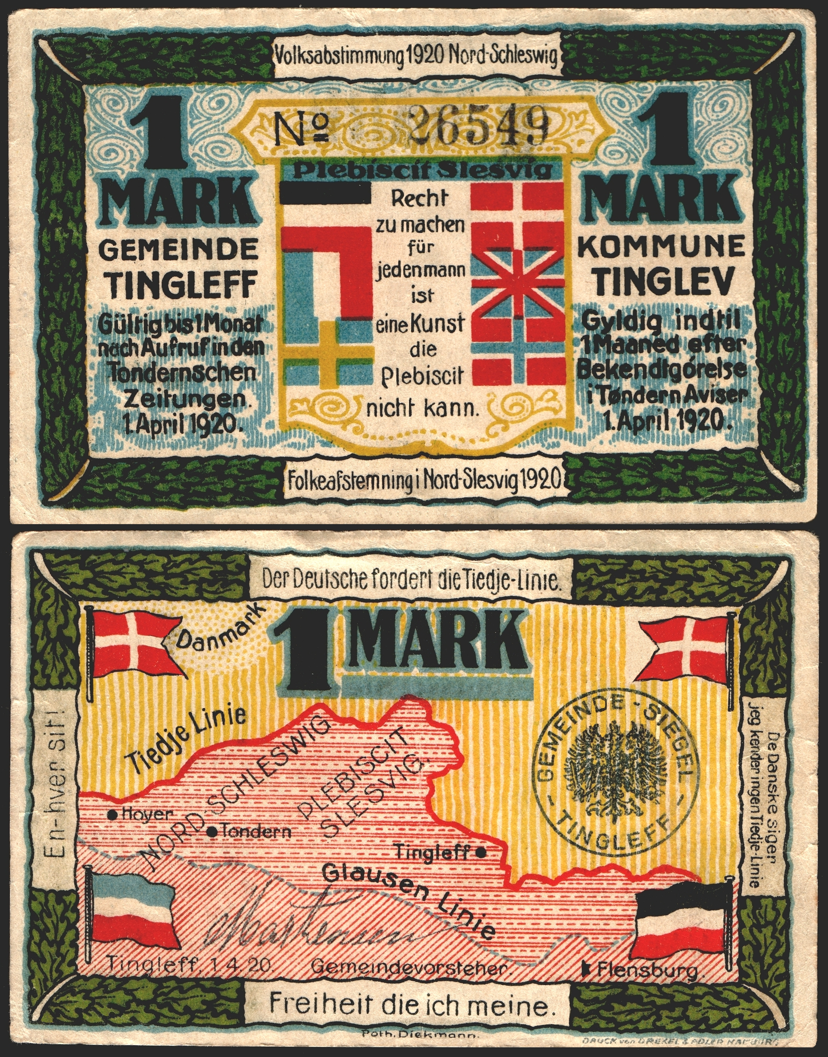 1 Mark Notgeld banknote of Tingleff, Nordschleswig, today Denmark (1920), the reverse shows a preview of the plebiscite on March 14, 1920 with the borders to be determined, the so-called Tiedje-Line (here preferred) and the Clausen-Line (the later result).